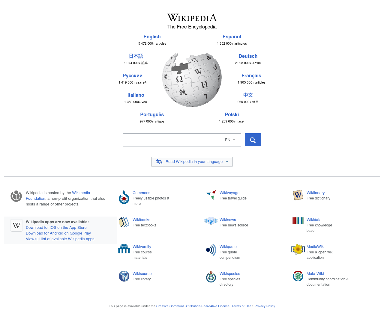 portal screenshot